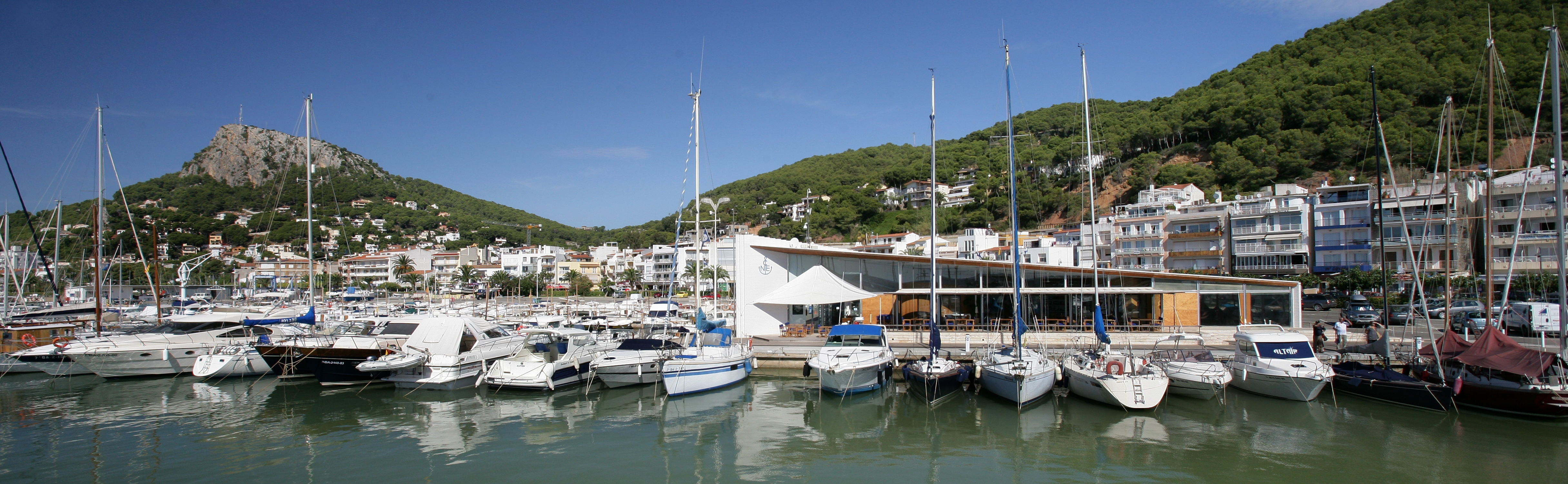 Club Nàutic Estartit